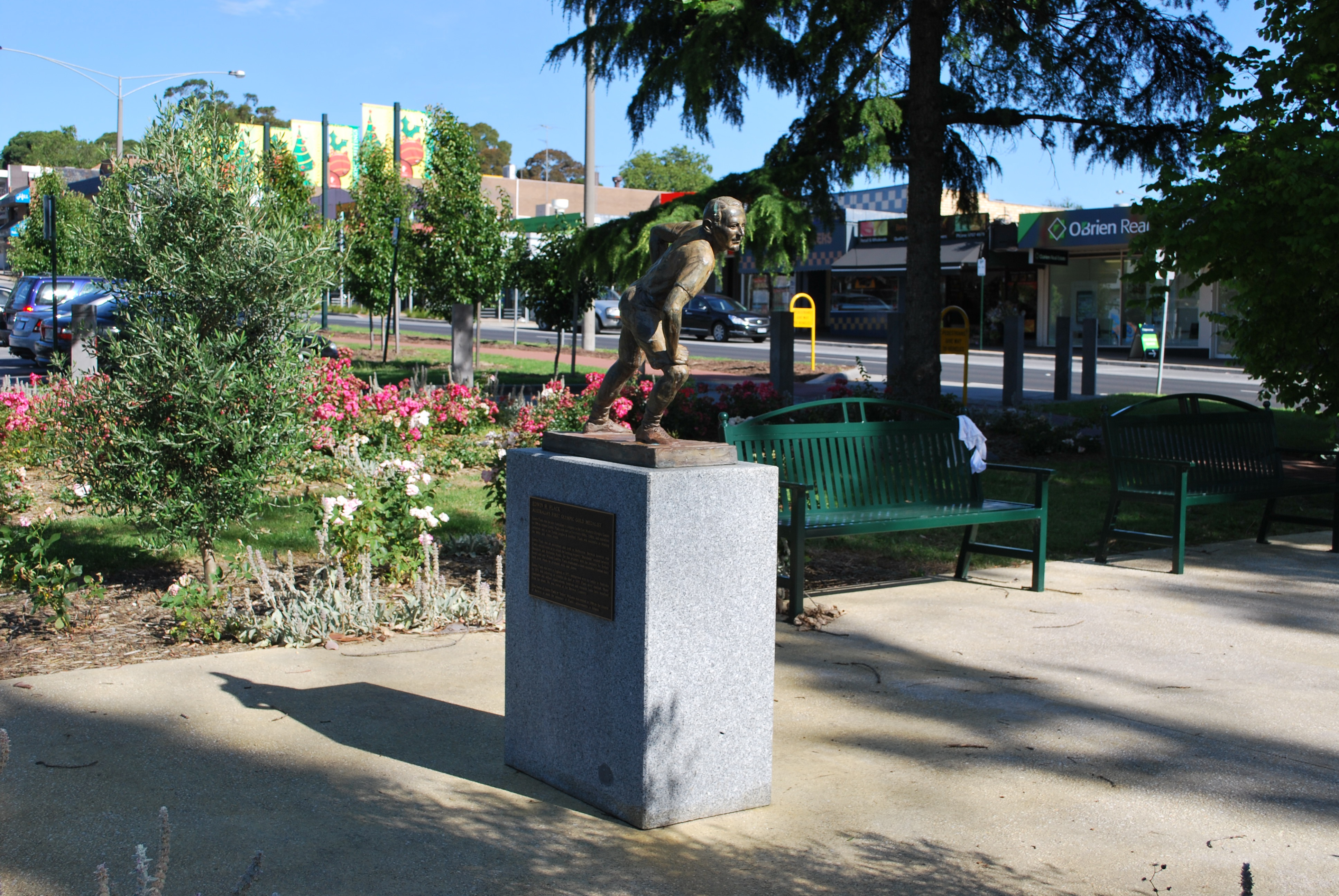 Monument commemorating Edwin Flack at Berwick, Victoria